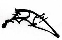 The kaō (calligraphic signature) of Oda Nobunaga (died 1582)